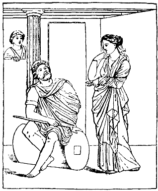 Penelope enounters the returned Odysseus posing as a beggar. From a mural in the Macellum of Pompeii.